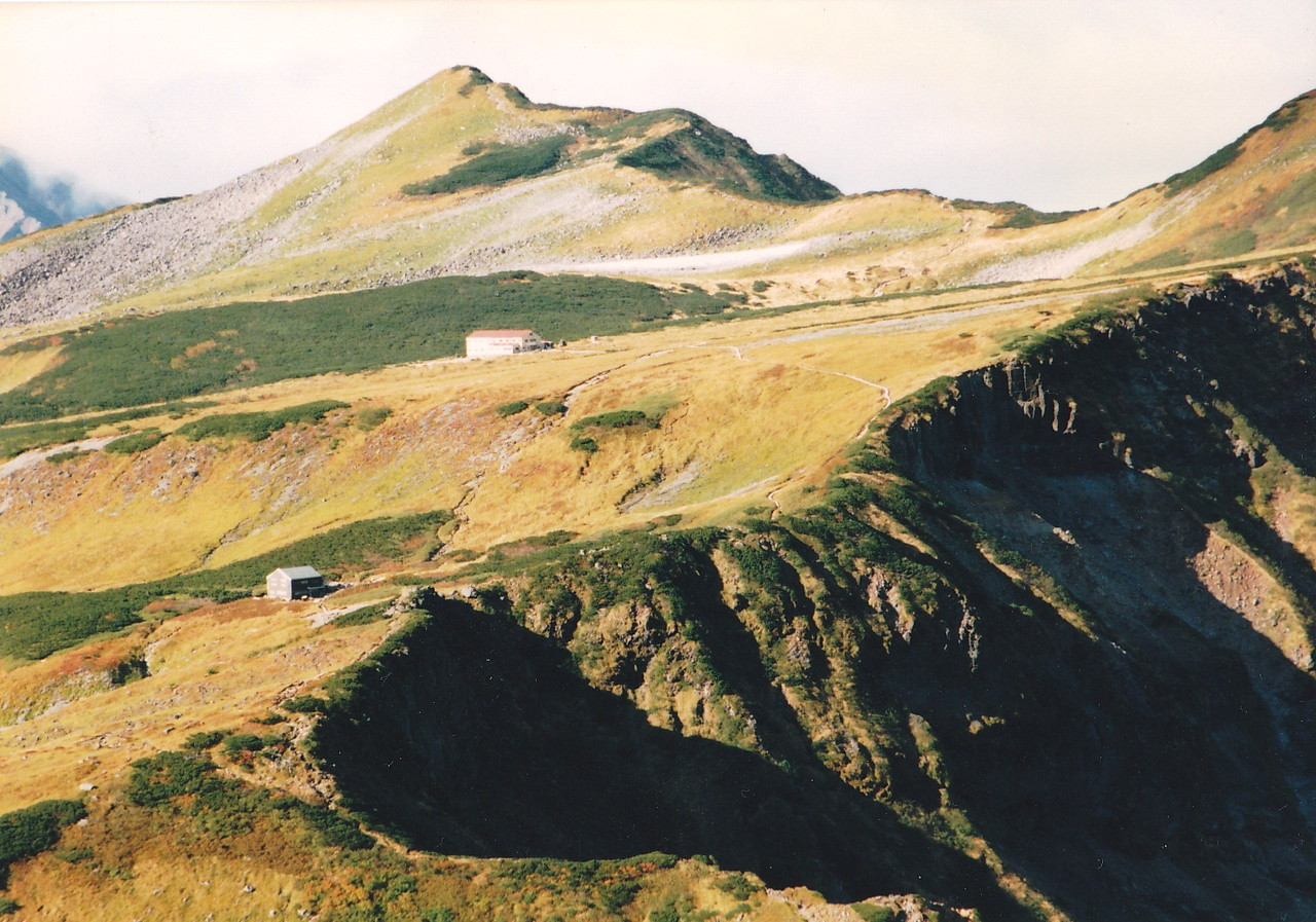 Goshikigahara and Mount Tobi seen from Mount Shishi in Hida Mountains, Japan.